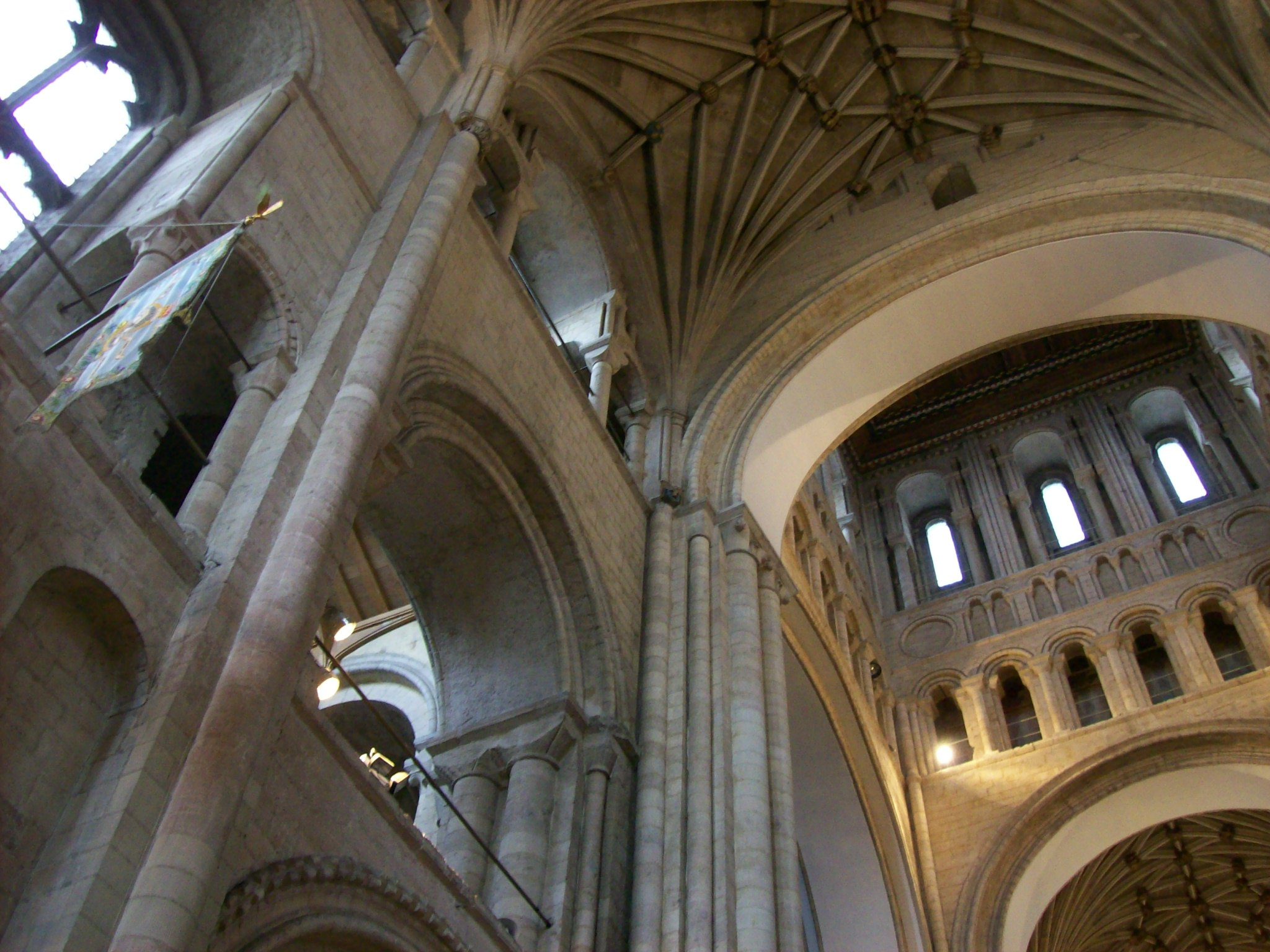 Norwich Cathedral, the crossing from south transept